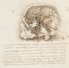 Study of the human skull